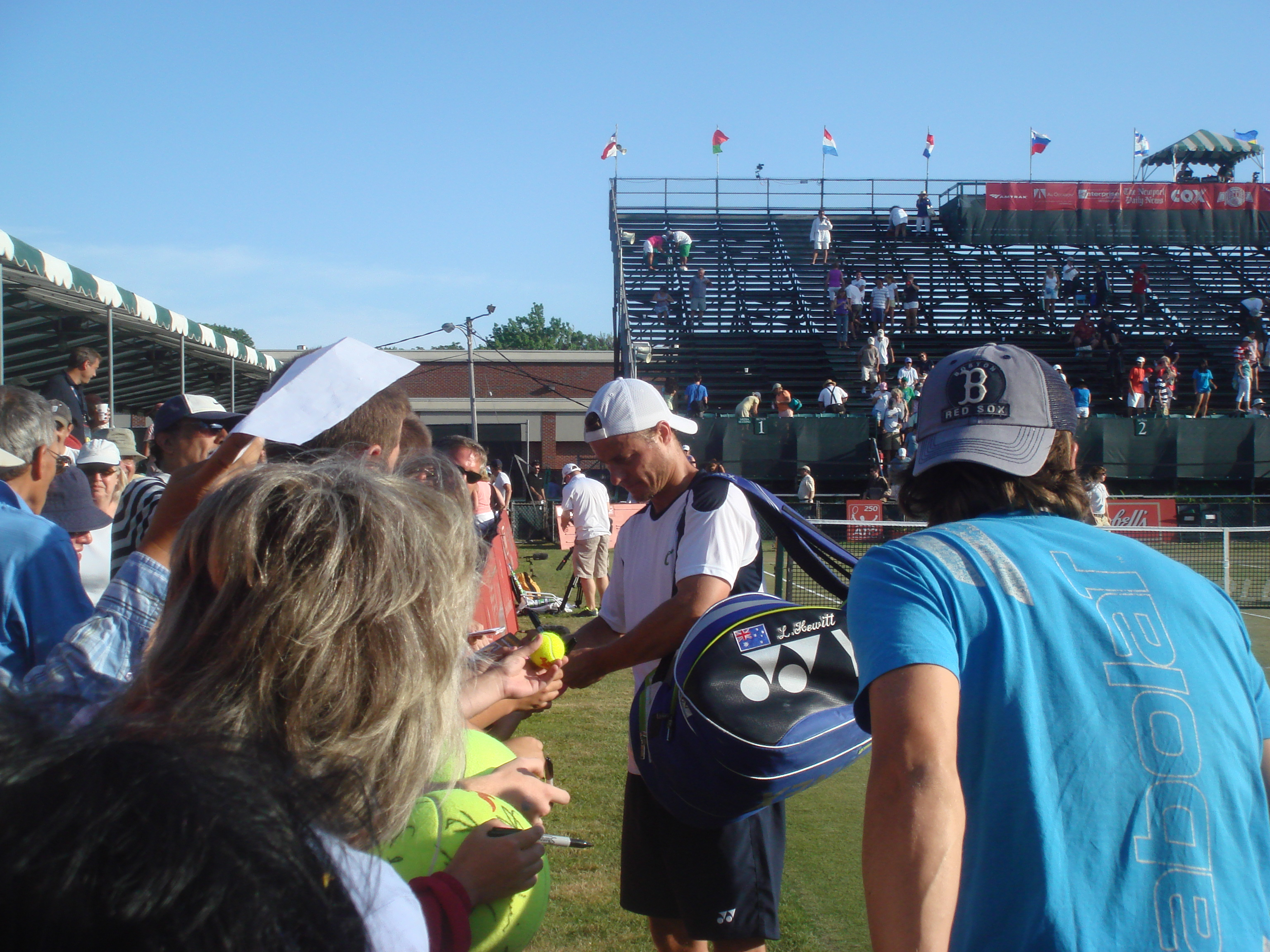 Lleyton Hewitt signing autographs after dismissing Vasek Pospisil 6-1 6-1 in the first round of the Hall of Fame Tennis Championships in Newport in 2012.